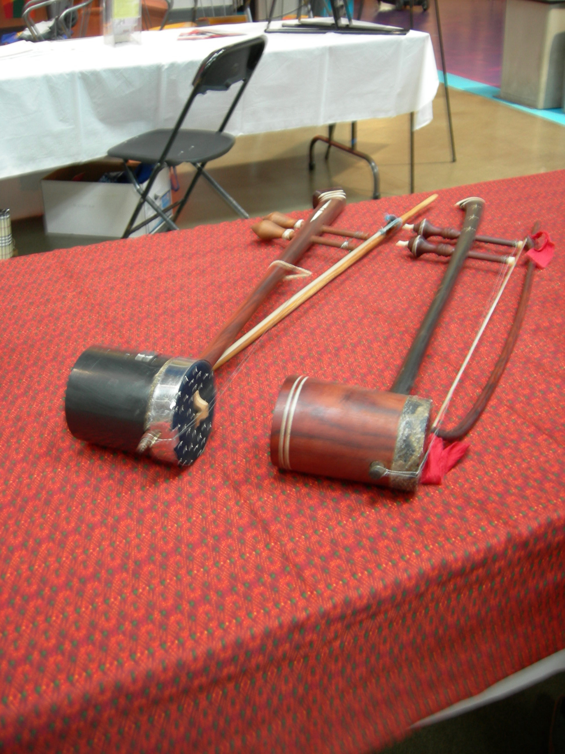 A pair of tro (Khmer stringed instruments) and their bows, photographed at API (Asian Pacific Islander) Heritage Month Festival, part of Festál at Seattle Center, Seattle, Washington.